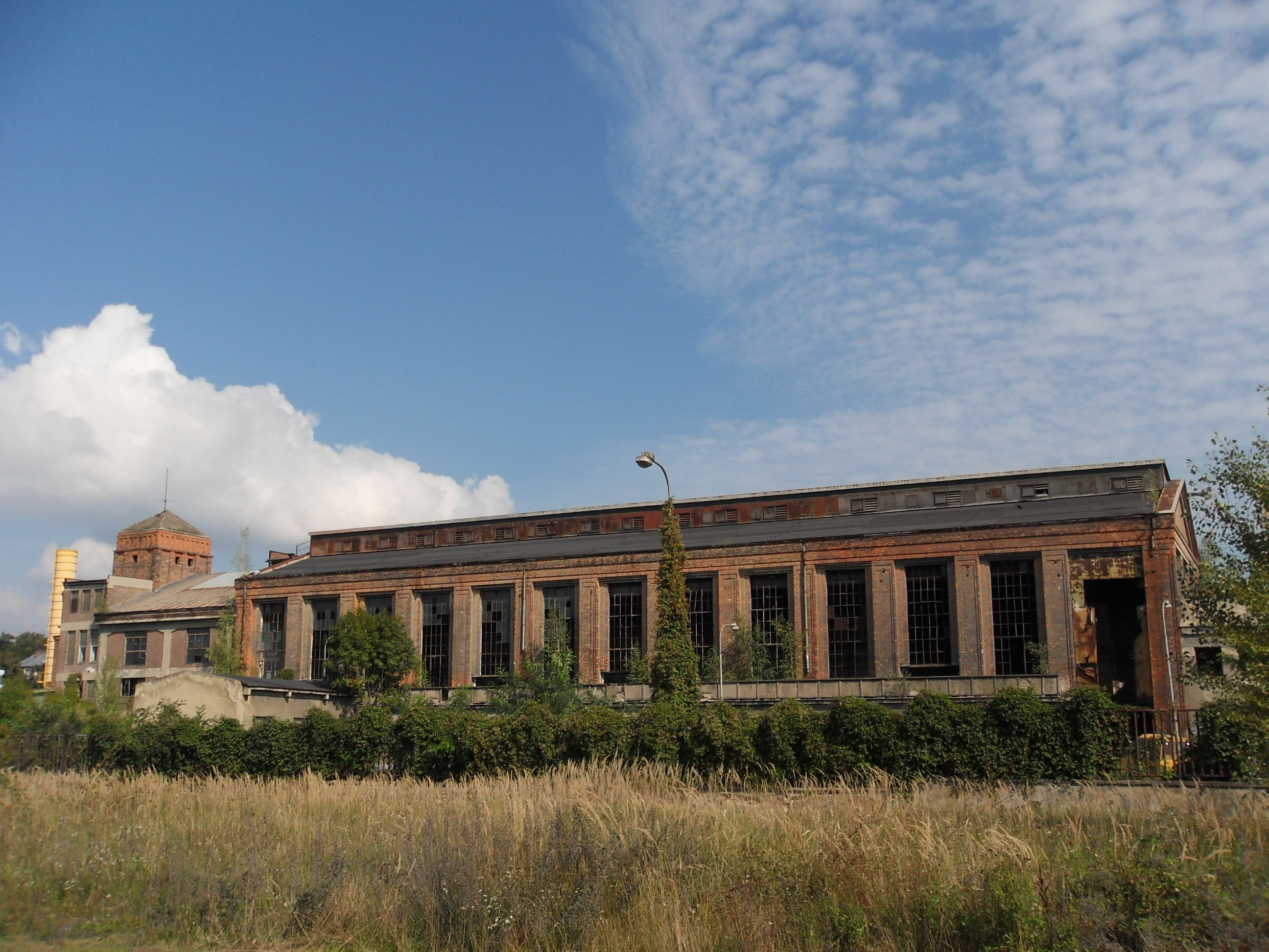 Former coal power plant, Oslavany, Brno-venkov District, Czech Republic